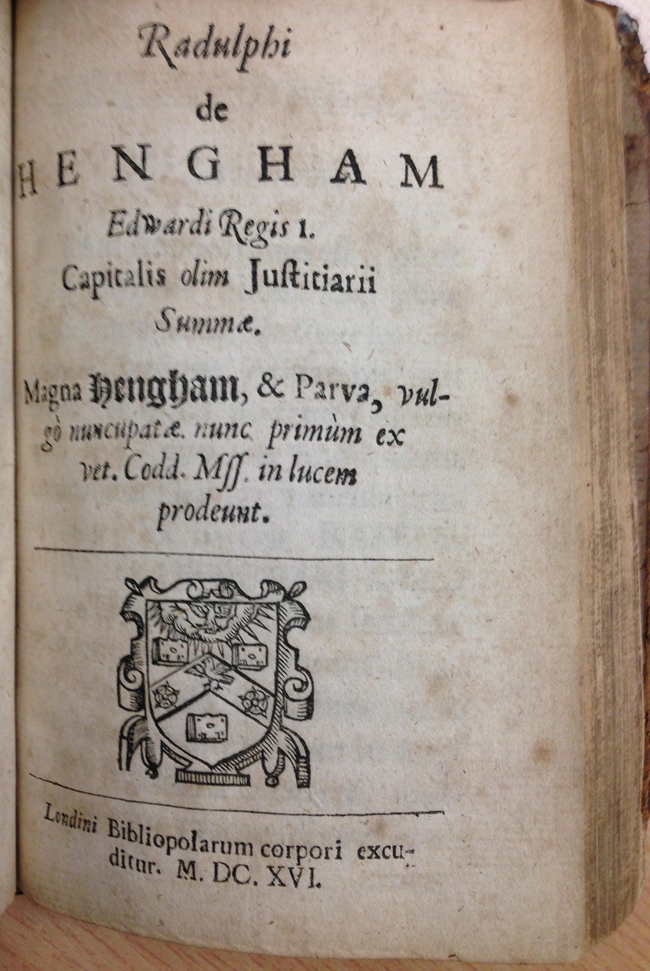 The separate title page of Sir Ralph de Hengham's collected works in John Fortescue (1660) De Laudibus Legum Angliæ Written by Sir John Fortescue L[ord] Ch[ief] Justice, and after L[ord] Chancellor to K[ing] Henry VI. Hereto are Added the Two Sums of Sir Ralph de Hengham L[ord] Ch[ief] Justice to K[ing] Edward I. Commonly Calld Hengham Magna, and Hengham Parva. With Notes both on Fortescue and Hengham. By that Famous and Learned Antiquarie John Selden Esq[uire] [Concerning the Praises of the Laws of England] (2nd ed.), London: Printed (by permission of the Company of Stationers) for Abel Roper at the Sun against Saint Dunstan's Church in Fleet Street OCLC: 5178304. The text on this title page is as follows: "Radulphi / de / HENGHAM / Edwardi Regis I. / Capitalis olim Juſtitiarii / Summæ. [Ralph de Hengham. King Edward I's Former Chief Justice. Collected works.] "Magna Hengham, & Parva, Vul- / gò nuncupatæ nunc primùm ex / vet. Codd. Mſſ in lucem prodeunt. [Great Hengham, and Small, as they are commonly called, now for the first time brought to light from old handwritten codices. (vet. Codd. Mſſ = veteribus Cōdicibus Manuscrīptīs = old handwritten codices)] "Londini Bibliopolarum corpori excu- / ditur. M. DC. XVI. [London. Published by the Printers' Company. 1616.]"